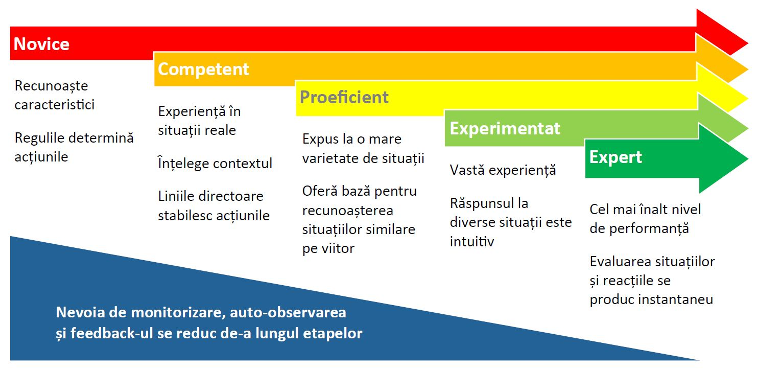 My_Translation_of_Dreyfus_Model